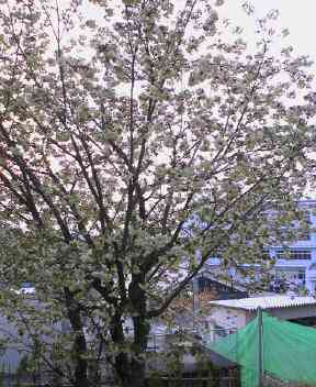 Cherry blossoms that make flower of fem green in Ise high school bloom tree.